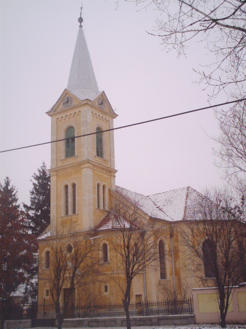 Lutheran Church, Csorvás, Hungary